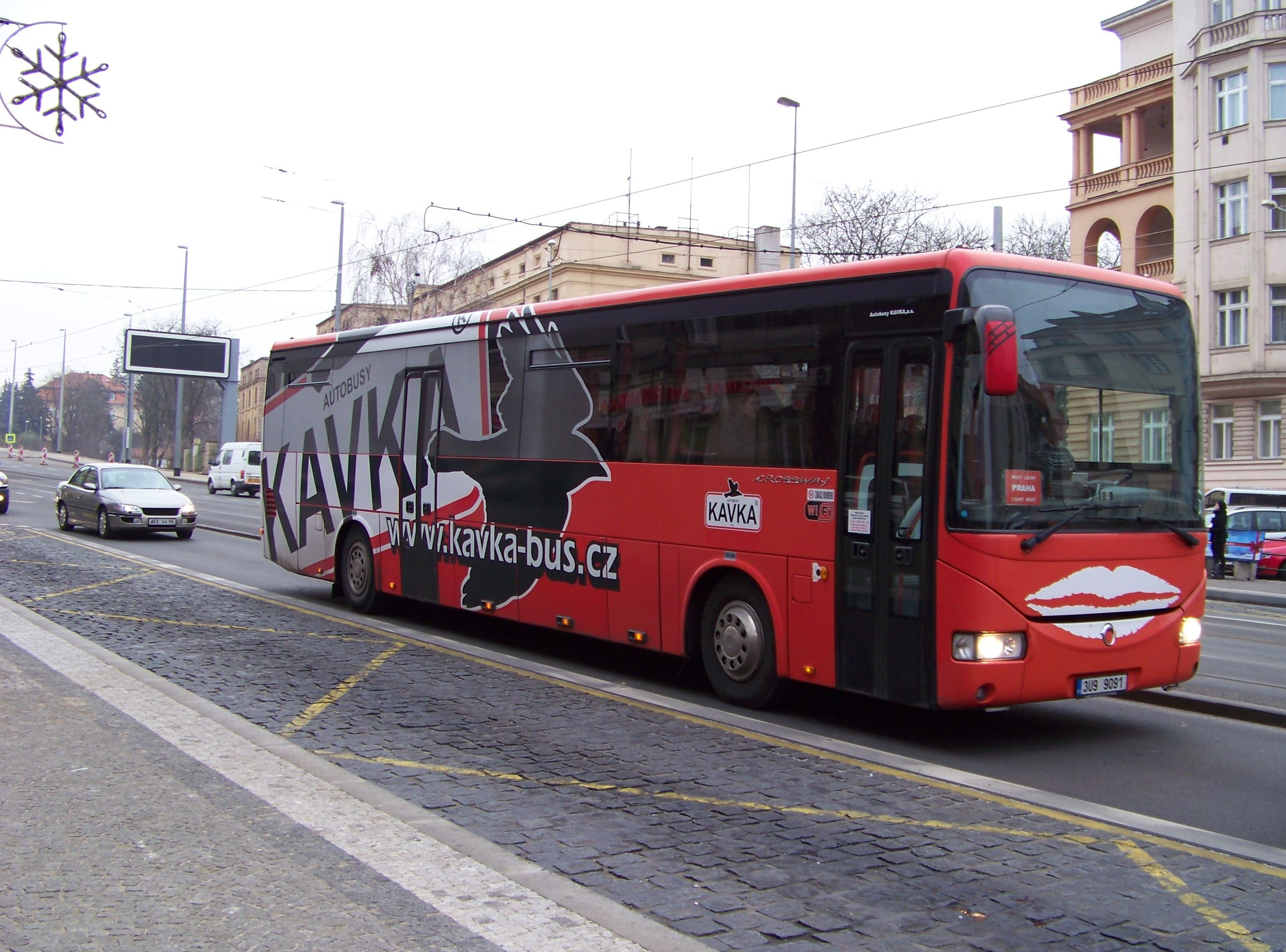 Prague-Dejvice, Czech Republic. Svatovítská street, a bus Irisbus Crossway of Autobusy Kavka.